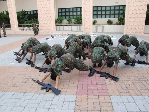 Push-Ups, or pumping, is part and parcel of Physical Training or for punishments in the NCC.